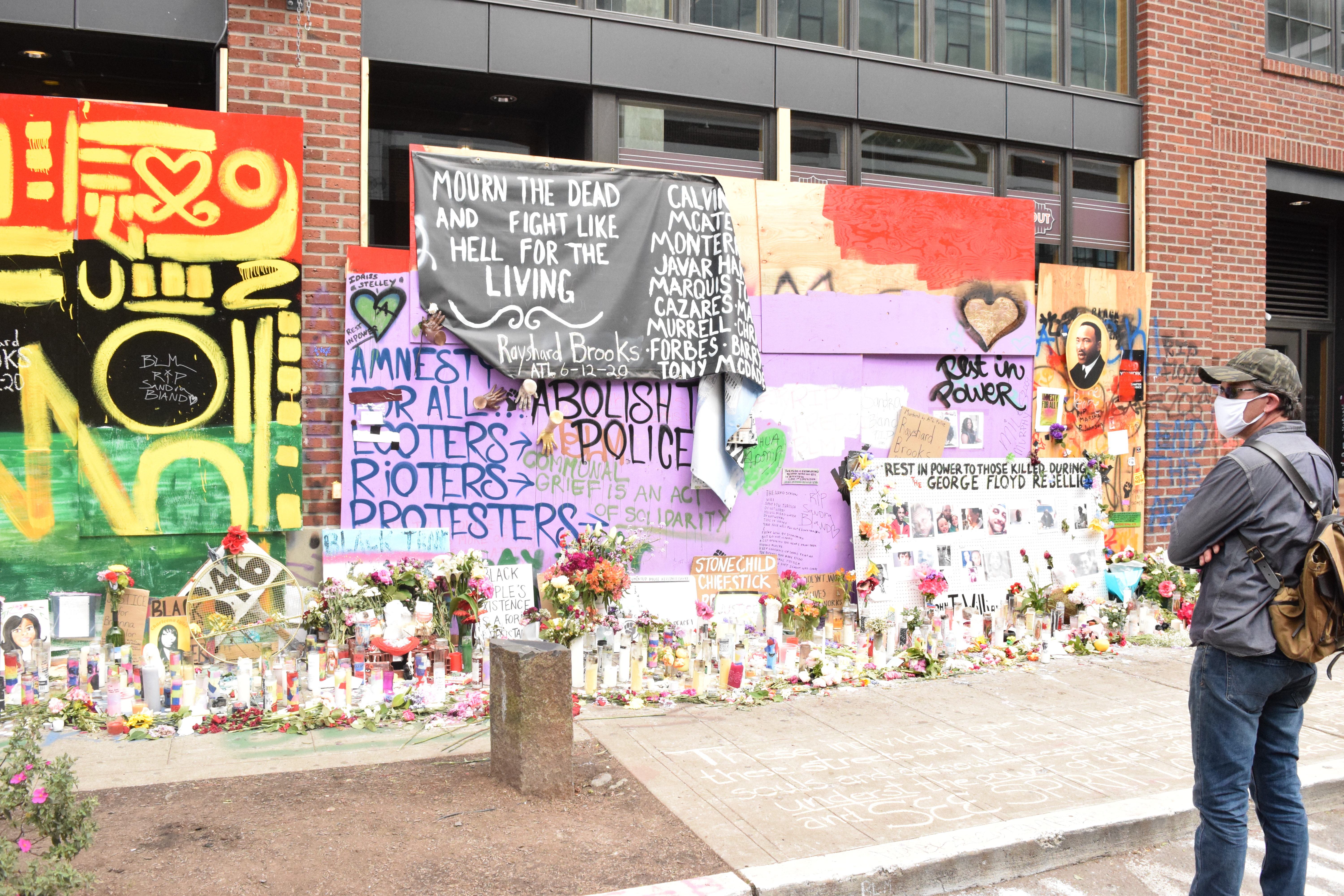 Signs and candles are organized as a memorial to black lives